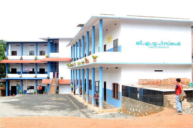 kodiyathur GMUP school